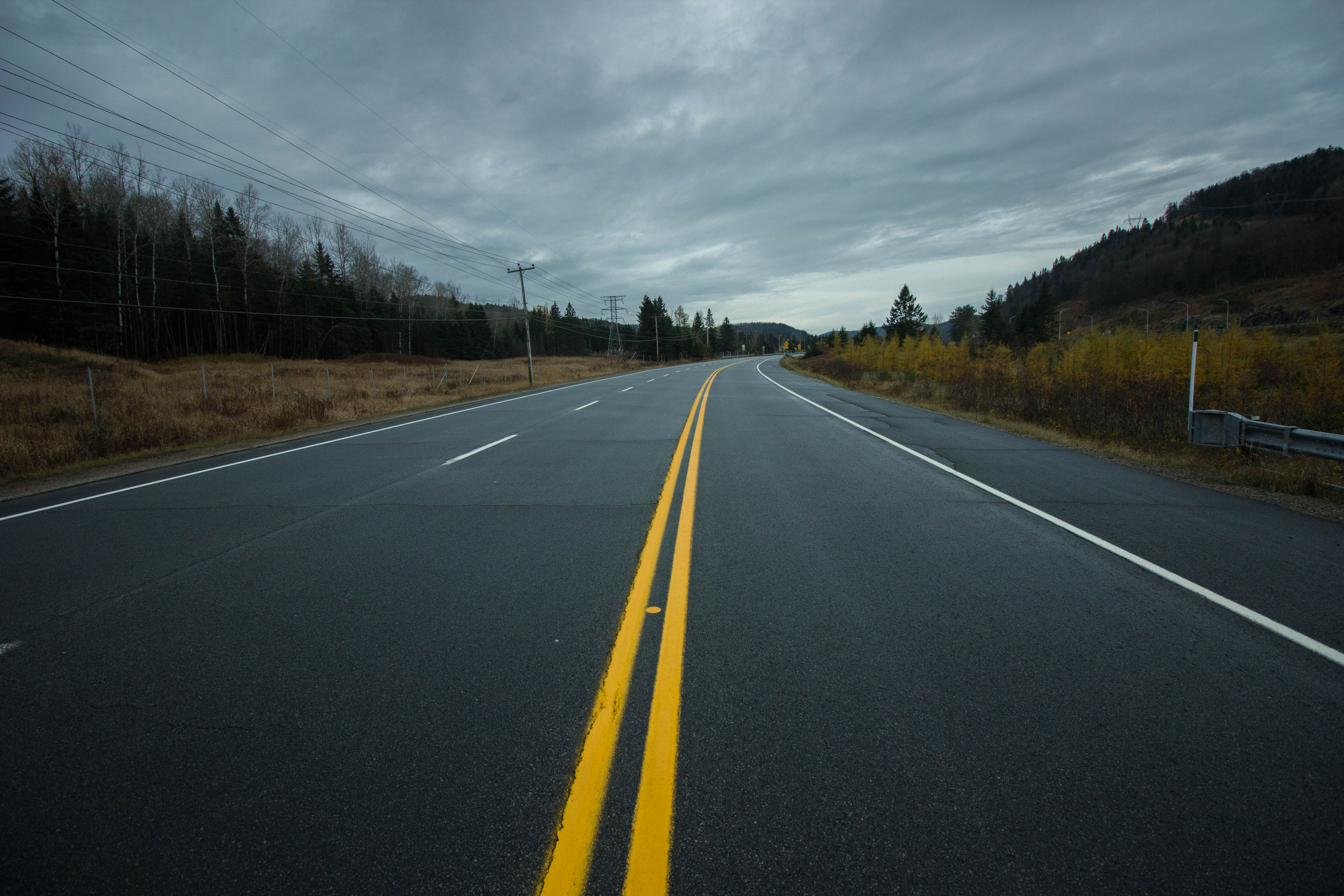 Highways often act as barriers to animal movement. Pictured above is highway 10 in Quebec, Canada